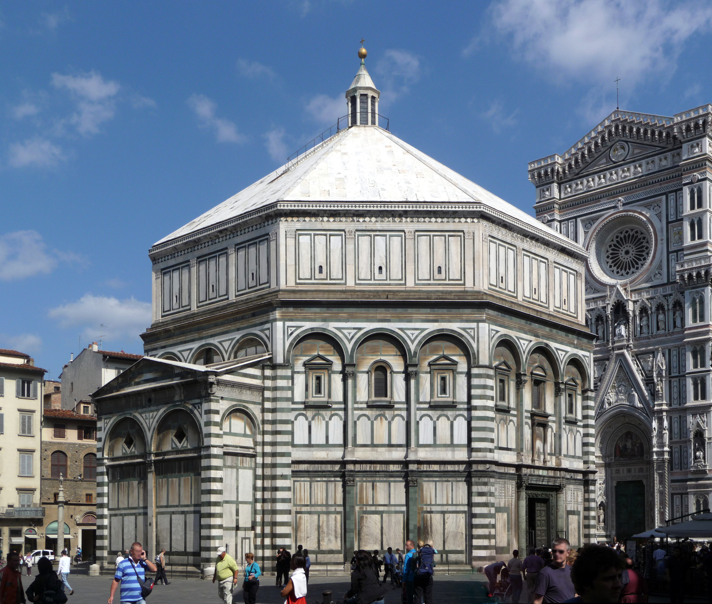 Battistero di San Giovanni (Firenze), Italy